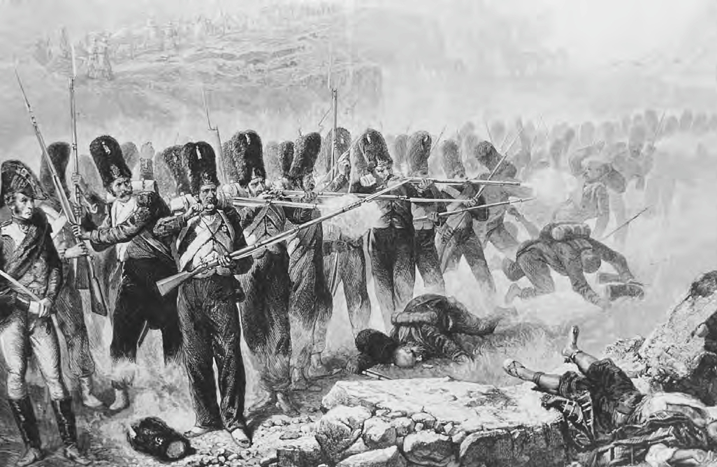 Wearing their distinctive bearskin caps, Napoleon’s Imperial Guard was the most famous of many elite military formations of the day.